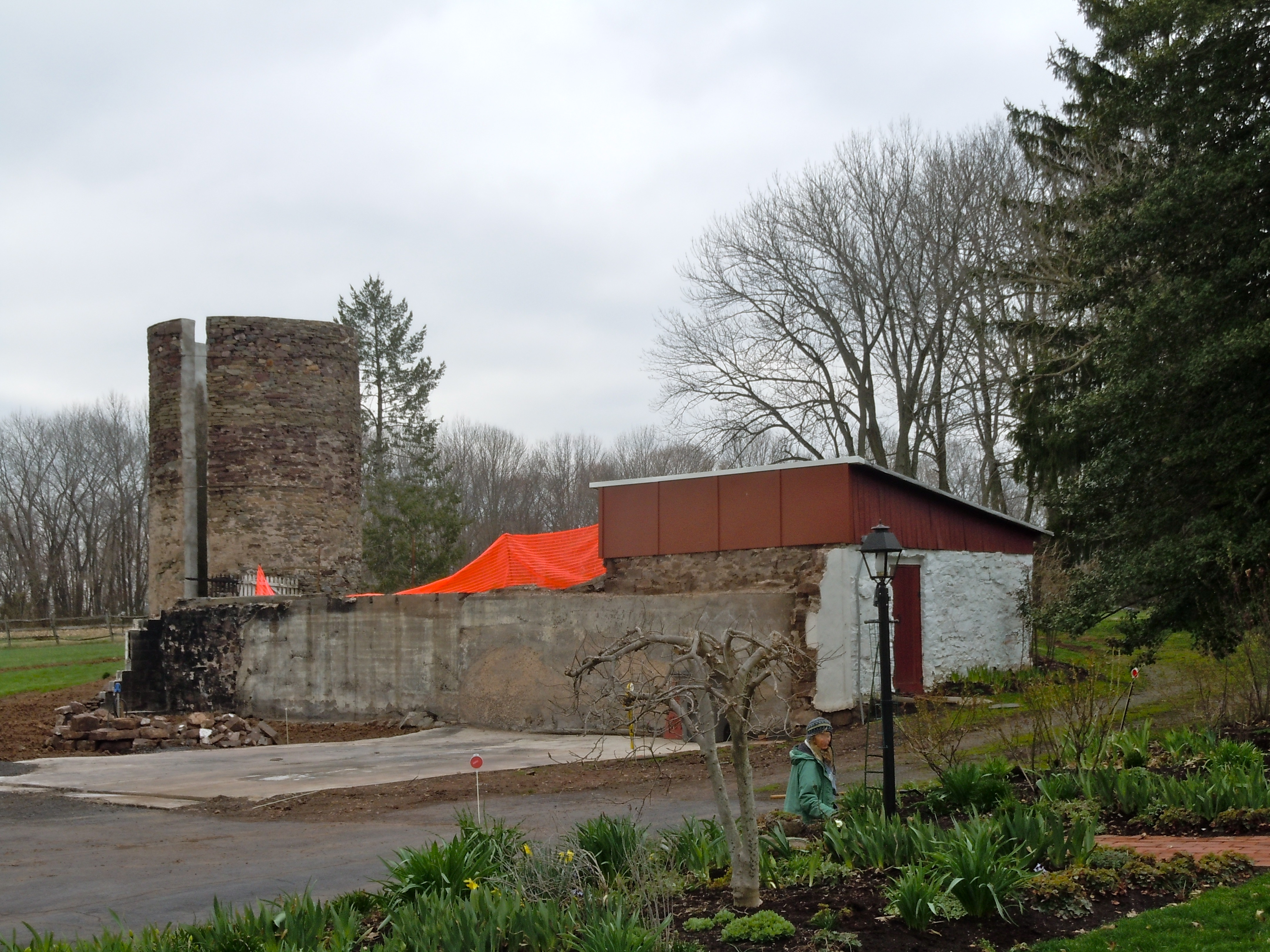 Remains of the barn on River Bend Farm. It was on the NRHP since August 29, 1980. Located north of Spring City on Sanatoga Road, probably in East Coventry Township, definitely in Chester County, Pennsylvania. Barn burned down this winter according to resident of the farm.